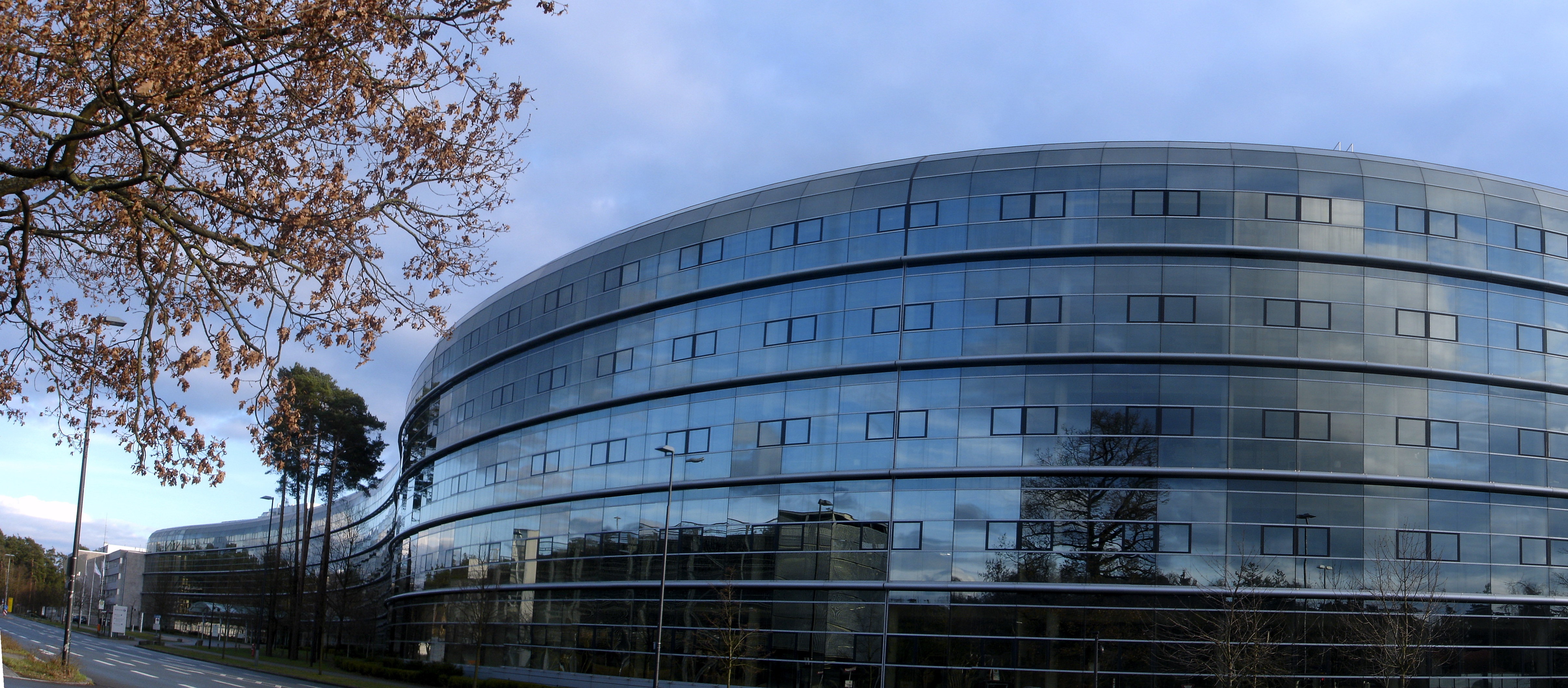 Optical Center of Excellence of Alcatel-Lucent. Bell Labs at Nordostpark in Nuremberg.